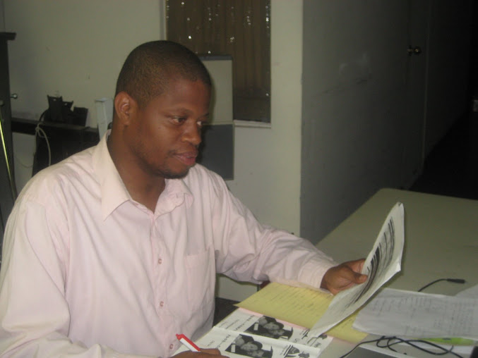 United Coalition Association has taken steps to fight against the alarming number of youth dropouts; by hosting the New York State College Fair Day which is designed to inspire our youth by showing them the value of an education and equipping our students with the means to obtain a high-quality education that will enable them to become successful adults. This is a Picture of NEW YORK STATE COLLEGE FAIR DAY FOUNDER & FORMER MEMBER OF THE NEW YORK STATE DEMOCRATIC COMMITTEE Hon. Ronald Savage putting together one of the NYS College Fairs.